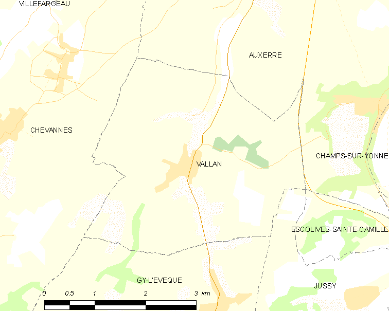 Map of French municipality Vallan